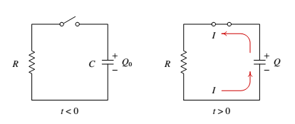 Descarga de um condensador.